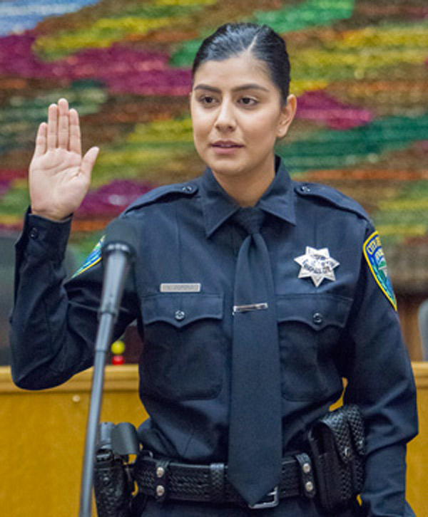 Officer Natalie Corona swearing-in